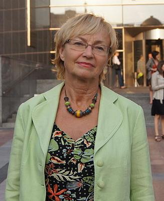 Lena Kolarska-Bobinska, outside the European Parliament (cropped), also see full photo on wikicommons